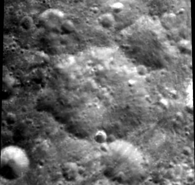 Moore lunar crater - Clementine image